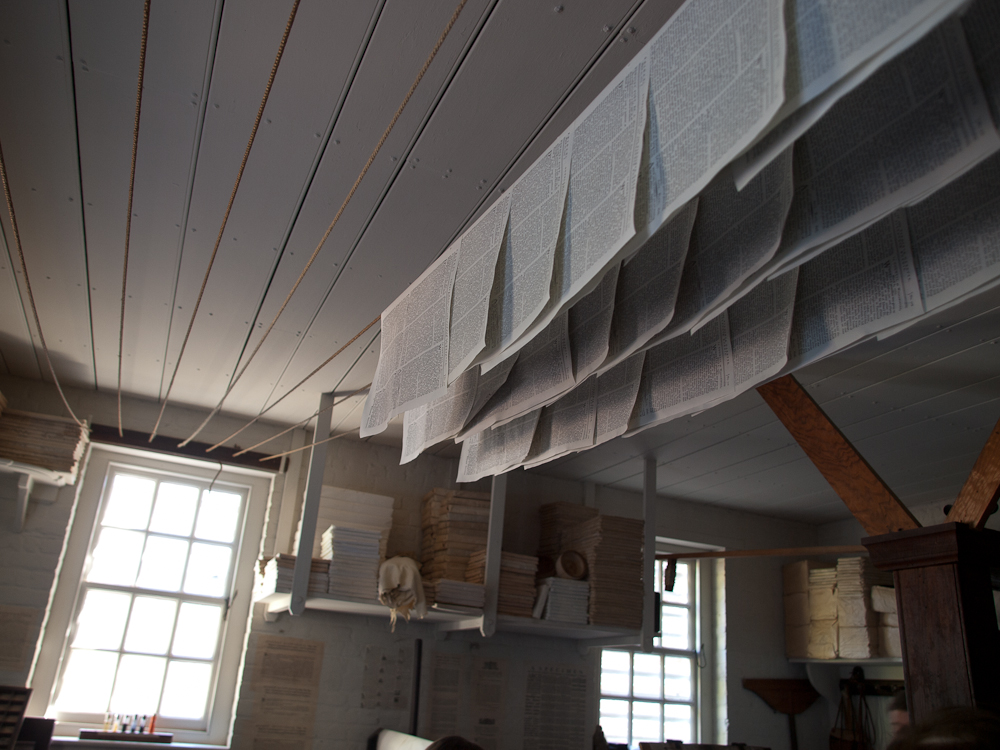 Colonial newspapers drying in a typical eighteenth century print shop